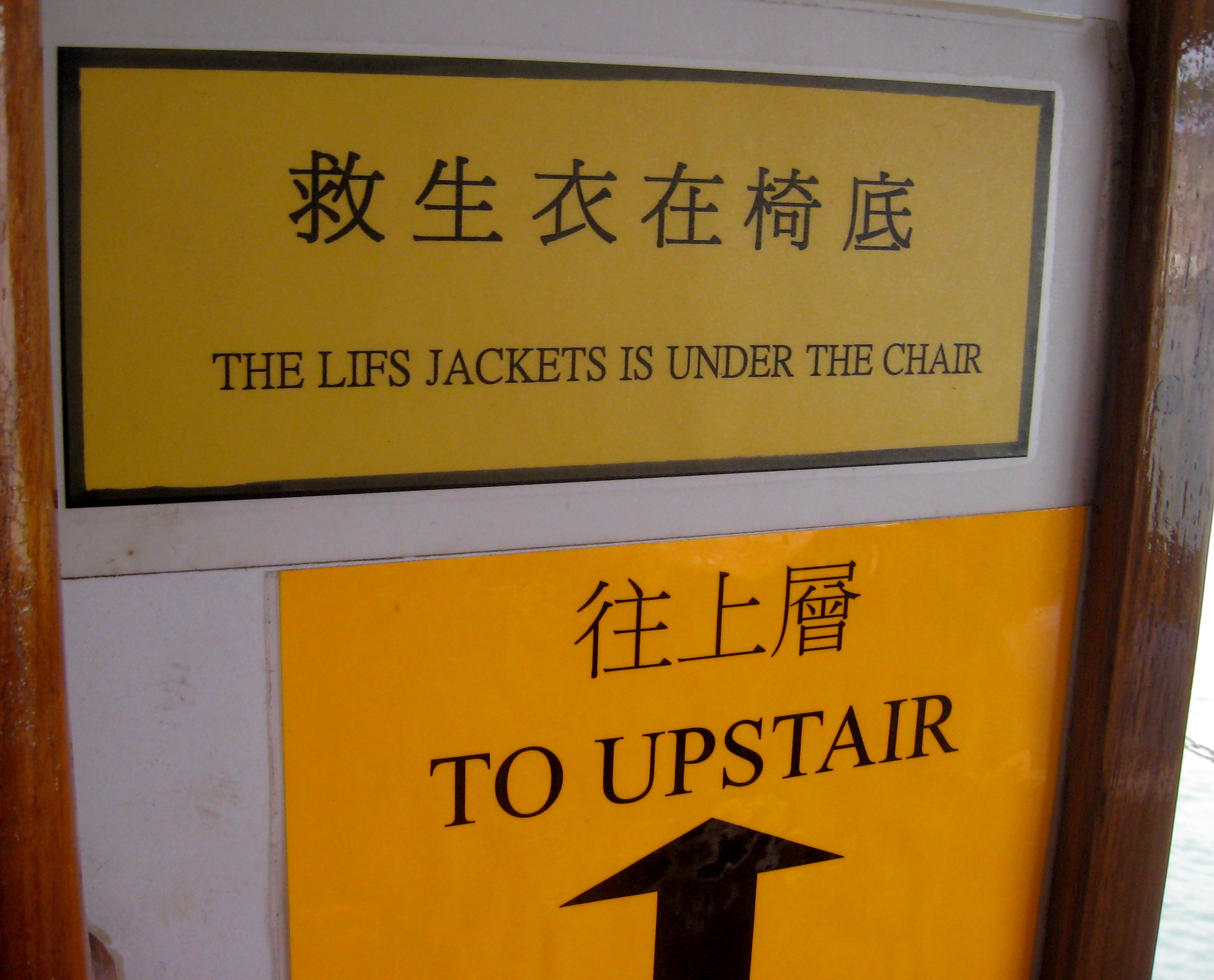 Asia Express